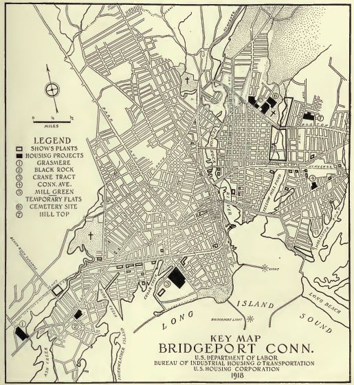 Seven sites were chosen for the federal housing projects to house workers for WWI in Bridgeport. Five of the sites were built. The war ended before most of the sites could be completed.